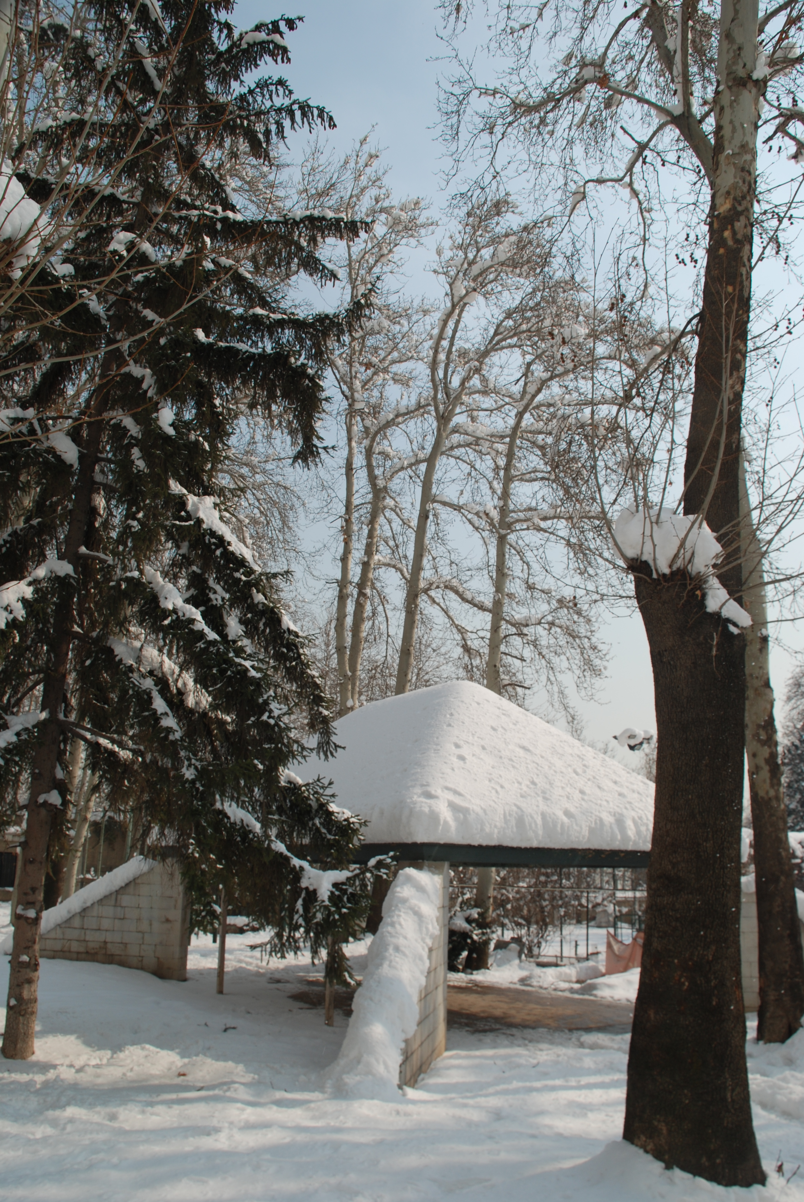 پارک برفی